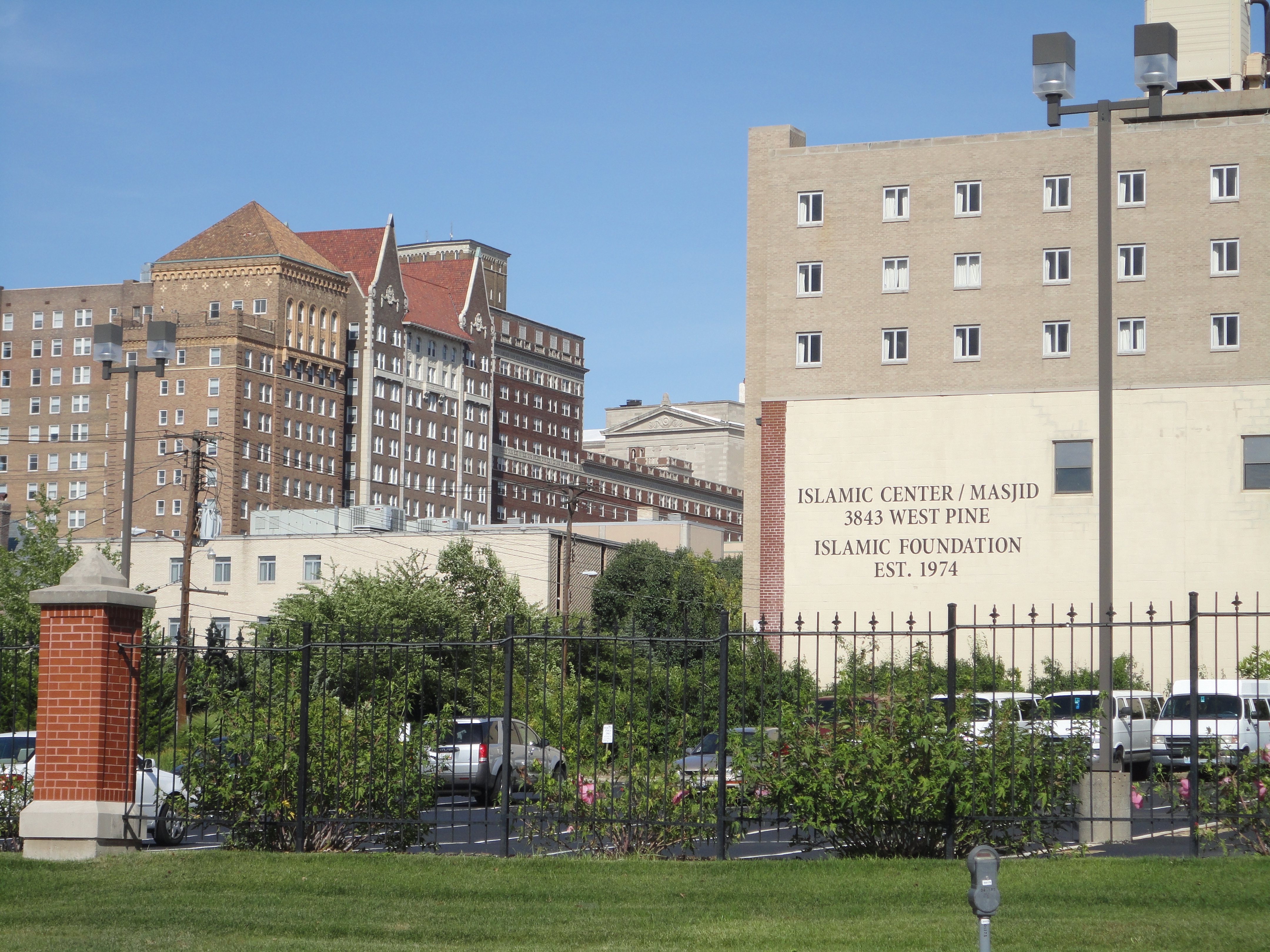 Islamic Center and Lindell Apartments